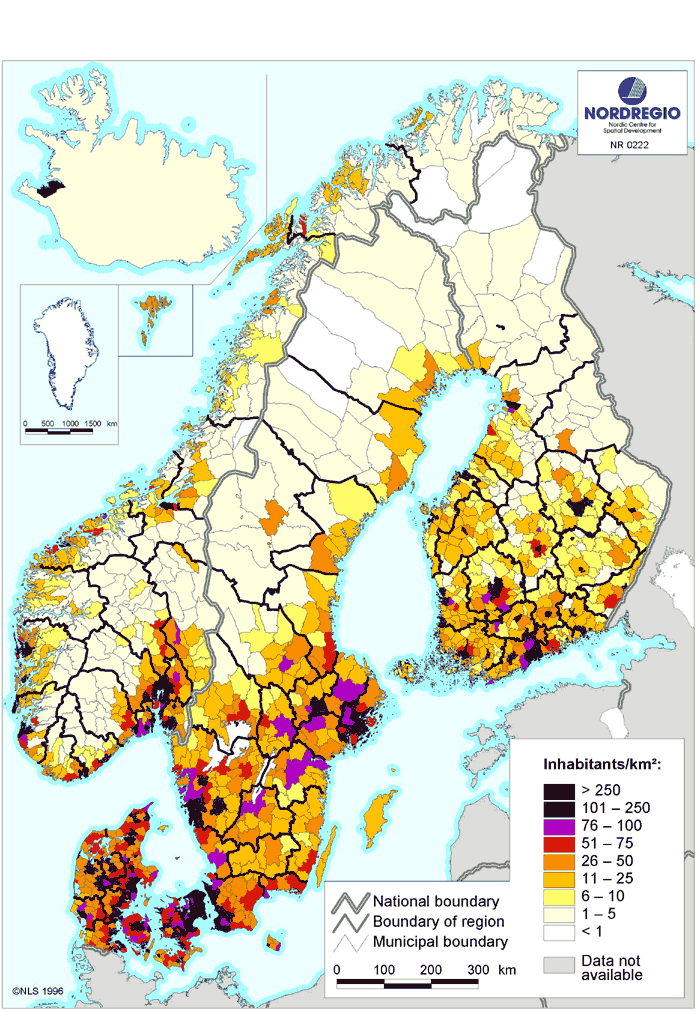 imported from en.wikipedia : [1]